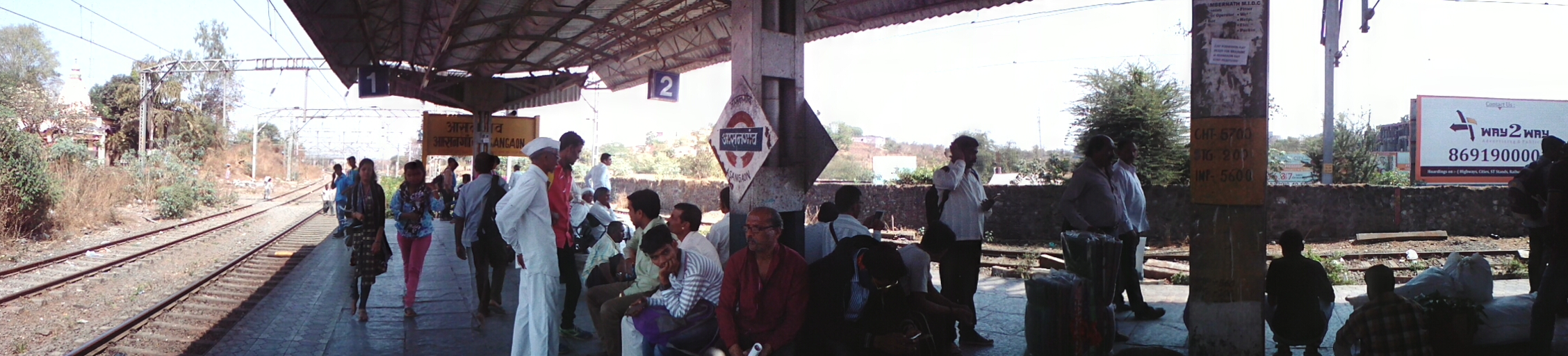 Panoramic View of Asangaon railway station